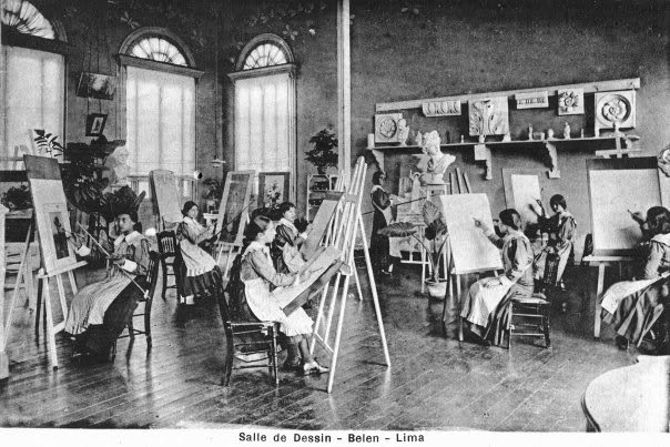 Colegio Belen interior, sala de arte